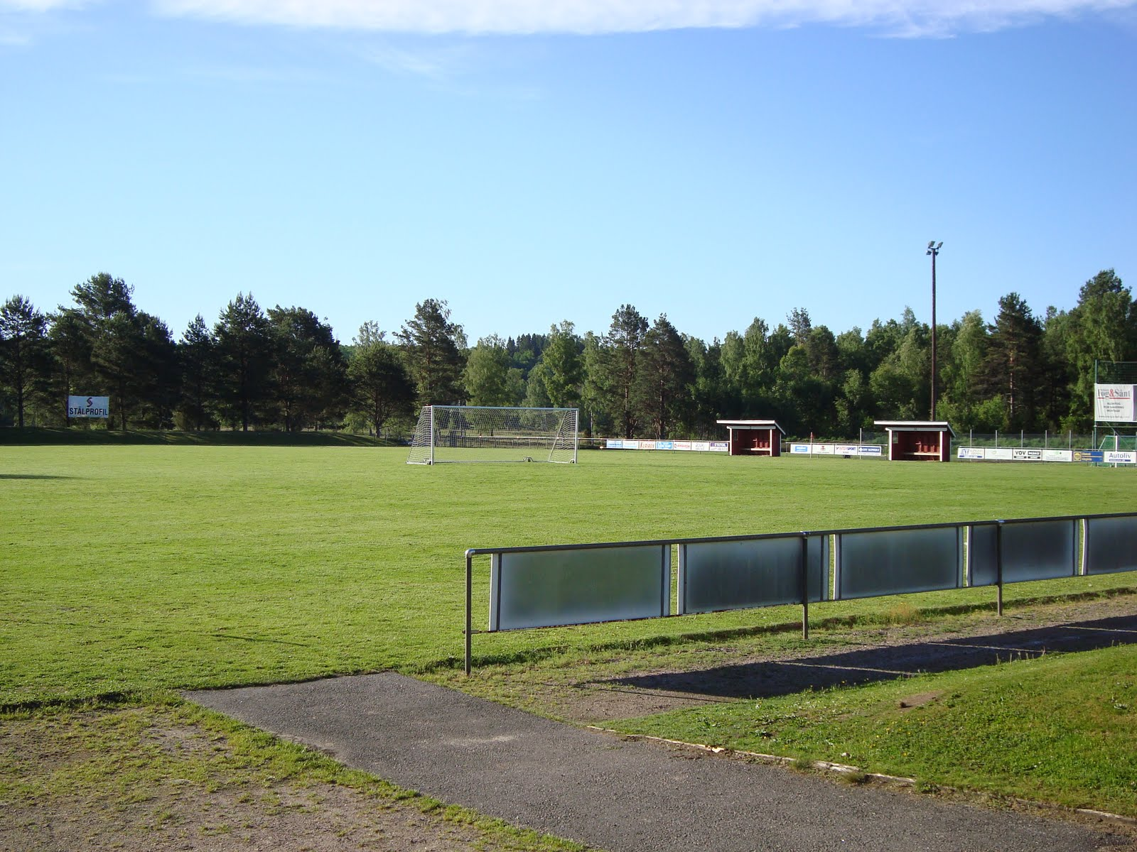 Tånga Hed IP